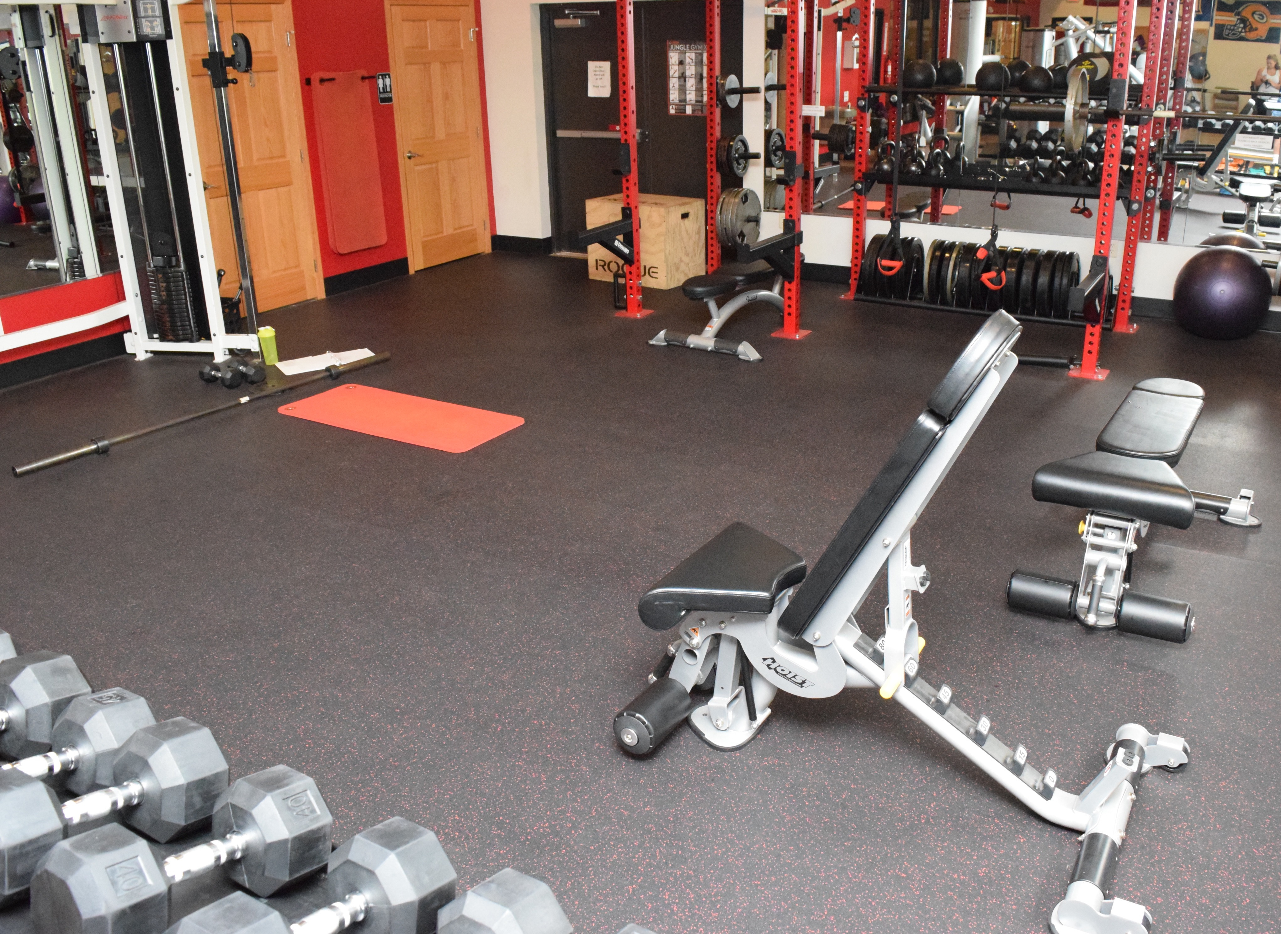 Dunamis Therapy and Fitness' Augusta, WI, facility during a Greatmats customer photo shoot in June 2015. Dunamis Therapy and Fitness installed Greatmats rolled rubber flooring in its 24/7 fitness center.